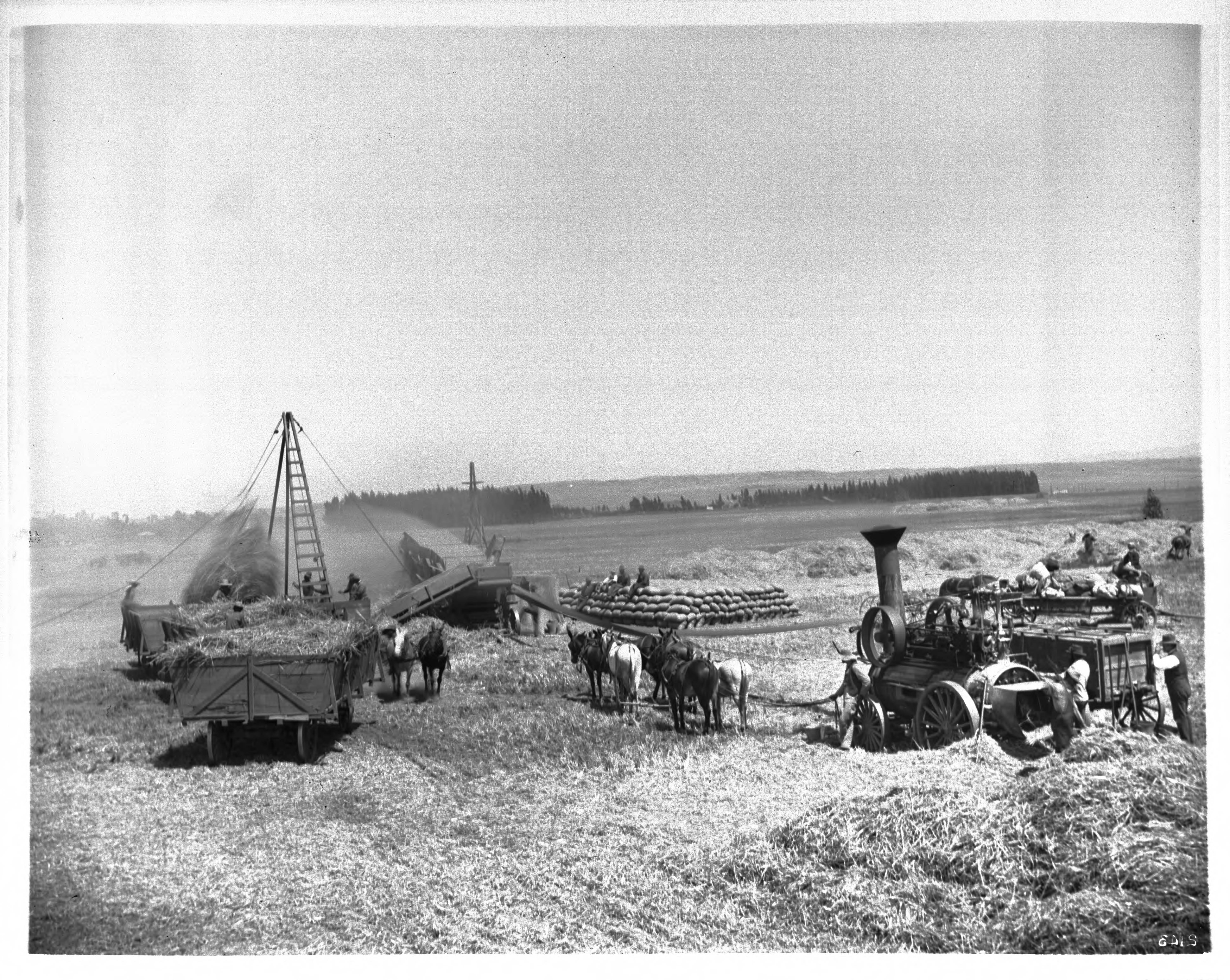 Threshing on the Centinela Ranch Photograph of a steam thresher on the Centinela Ranch owned by Daniel Freeman-Inglewood in Inglewood, California. A busy worksite in the bean field. About 3 horse-drawn vehicles work around the thresher. Horses provide power for other activities in the area as well, such as lifting and hauling. About 15 workers are visible. Several men lounge on piles of filled sacks of grain at center. Call number: CHS-2143 Filename: CHS-2143 Coverage date: circa 1900 Part of collection: California Historical Society Collection, 1860-1960 Format: glass plate negatives Type: images Geographic subject (city or populated place): Inglewood; Inglewood Repository name: USC Libraries Special Collections Accession number: 2143 Microfiche number: 1-117-22 Archival file: chs_Volume69/CHS-2143.tiff Part of subcollection: Title Insurance and Trust, and C.C. Pierce Photography Collection, 1860-1960 Repository address: Doheny Memorial Library, Los Angeles, CA 90089-0189 Geographic subject (country): USA Format (aacr2): 2 photographs : glass photonegative, photoprint, b&w ; 21 x 26 cm. Rights: Digitally reproduced by the USC Digital Library; From the California Historical Society Collection at the University of Southern California Subject (adlf): agricultural sites Project: USC Repository Contributing entity: California Historical Society Date created: circa 1900 Publisher (of the digital version): University of Southern California. Libraries Format (aat): photographic prints; photographs Geographic subject (state): California Subject (file heading): Agriculture -- Ranching -- General Legacy record ID: chs-m9498; USC-1-1-1-9635 Access conditions: Send requests to address or e-mail given. Phone (213) 821-2366; fax (213) 740-2343. Geographic subject (county): Los Angeles Subject (lcsh): Agriculture; Horses; Agricultural machinery; Harvesting machinery; Beans -- Harvesting Subject: Centinela Ranch